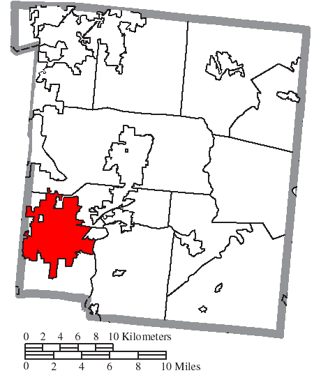 Map of the municipal and township boundaries of Warren County, Ohio, United States, as of the 2000 census, with the location of the city of Mason highlighted. Township borders are shown only in unincorporated areas in order to differentiate incorporated and unincorporated areas more clearly.